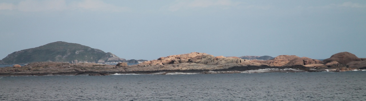 Seal Island, looking across to Saint Alouarn island, Western Australia - taken at sea level (+/_) 4 metres from high water mark on coast at a low tide, low swell, low wind